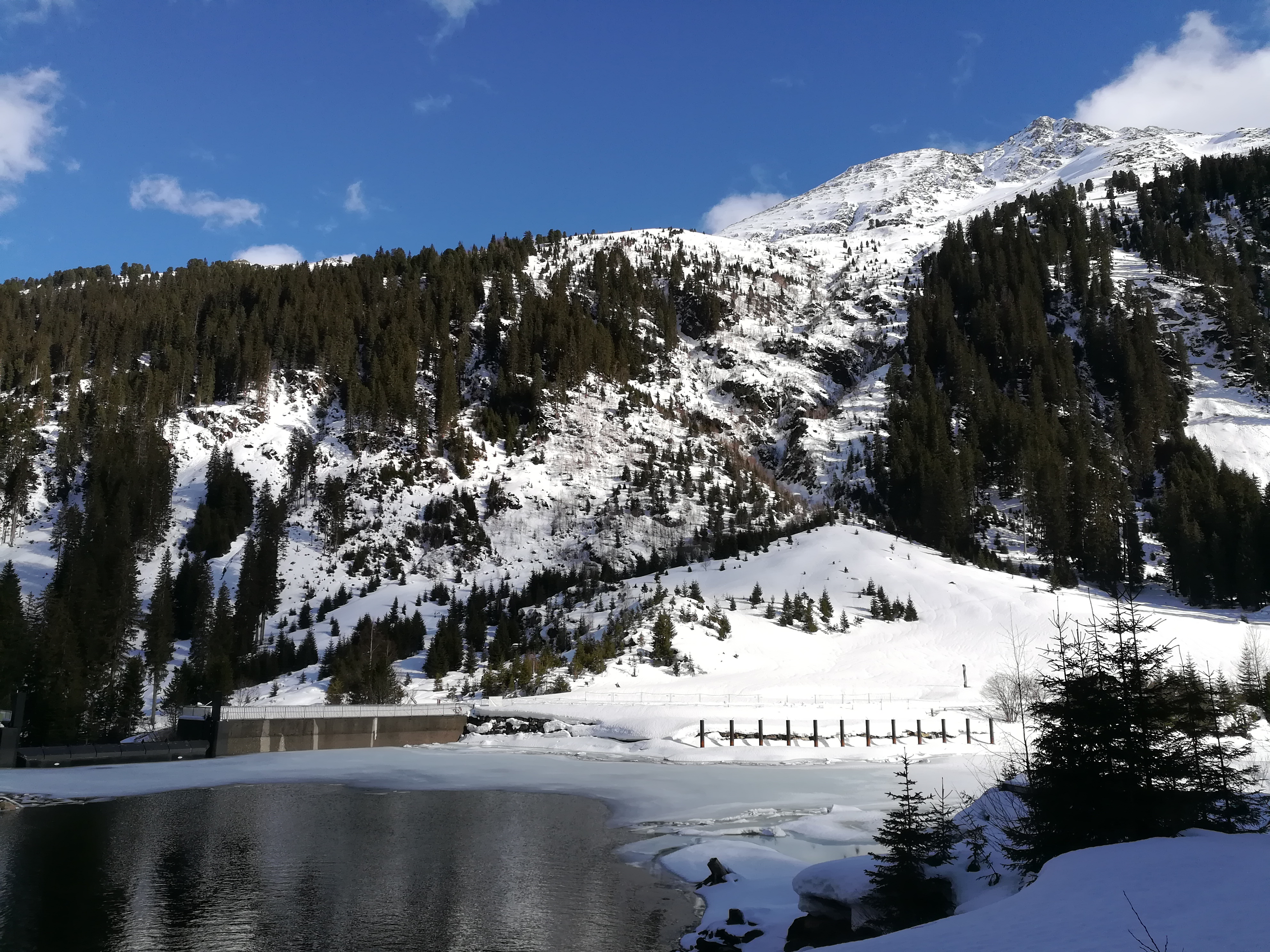 Verwallsee (tyrol) in March 2020